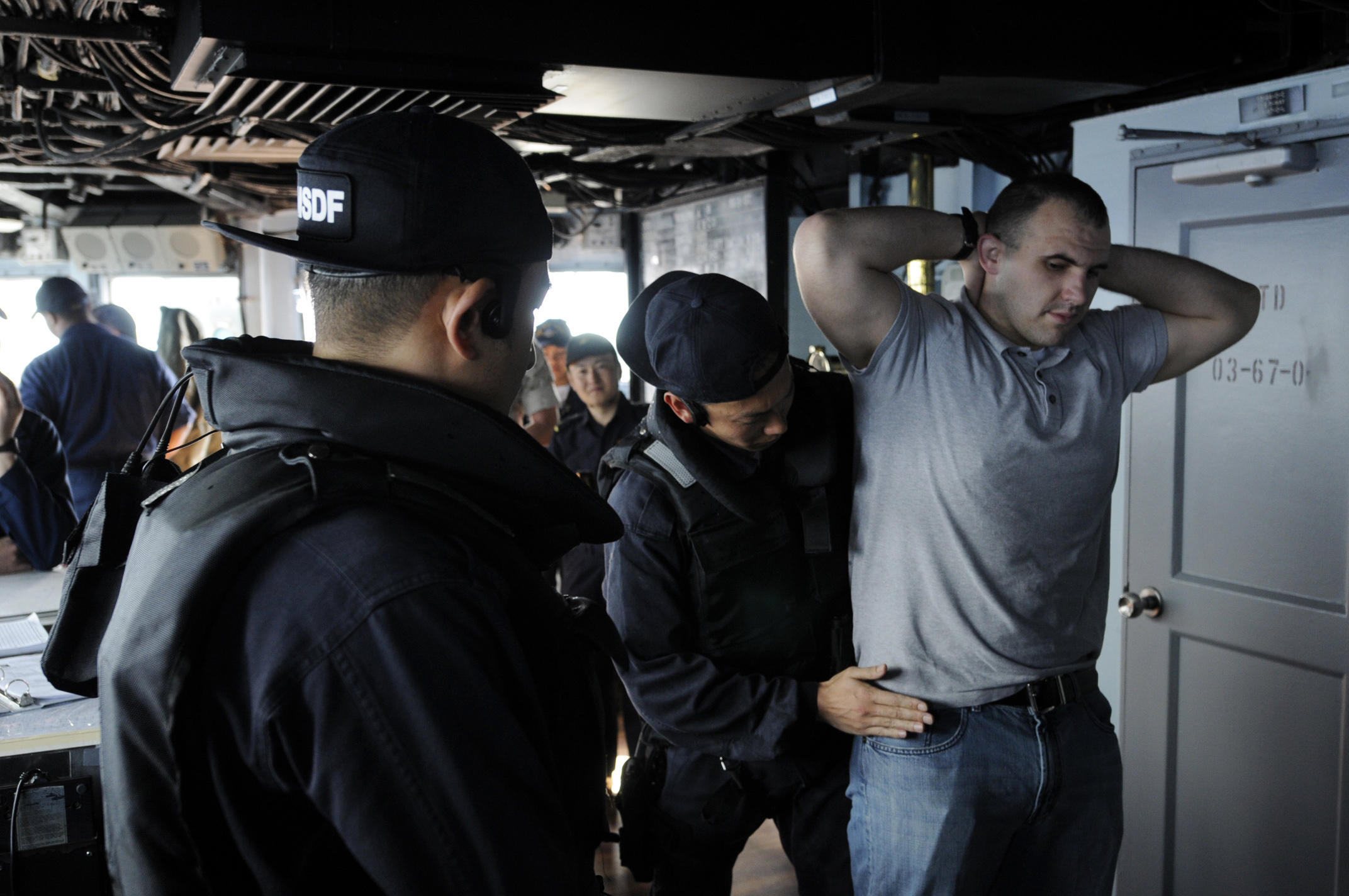 PACIFIC OCEAN (May 1, 2009) A member of the Japan Maritime Self-Defense Force searches Ensign Timothy Martin aboard the amphibious command ship USS Blue Ridge (LCC 19) during an Exercise Malabar 2009 visit, board, search and seizure drill. The Japan Maritime Self-Defense Force and the U.S. Navy are participating in Malabar, an annual exercise led by the Indian Navy. (U.S. Navy photo by Mass Communication Specialist 3rd Class Daniel Viramontes/Released)